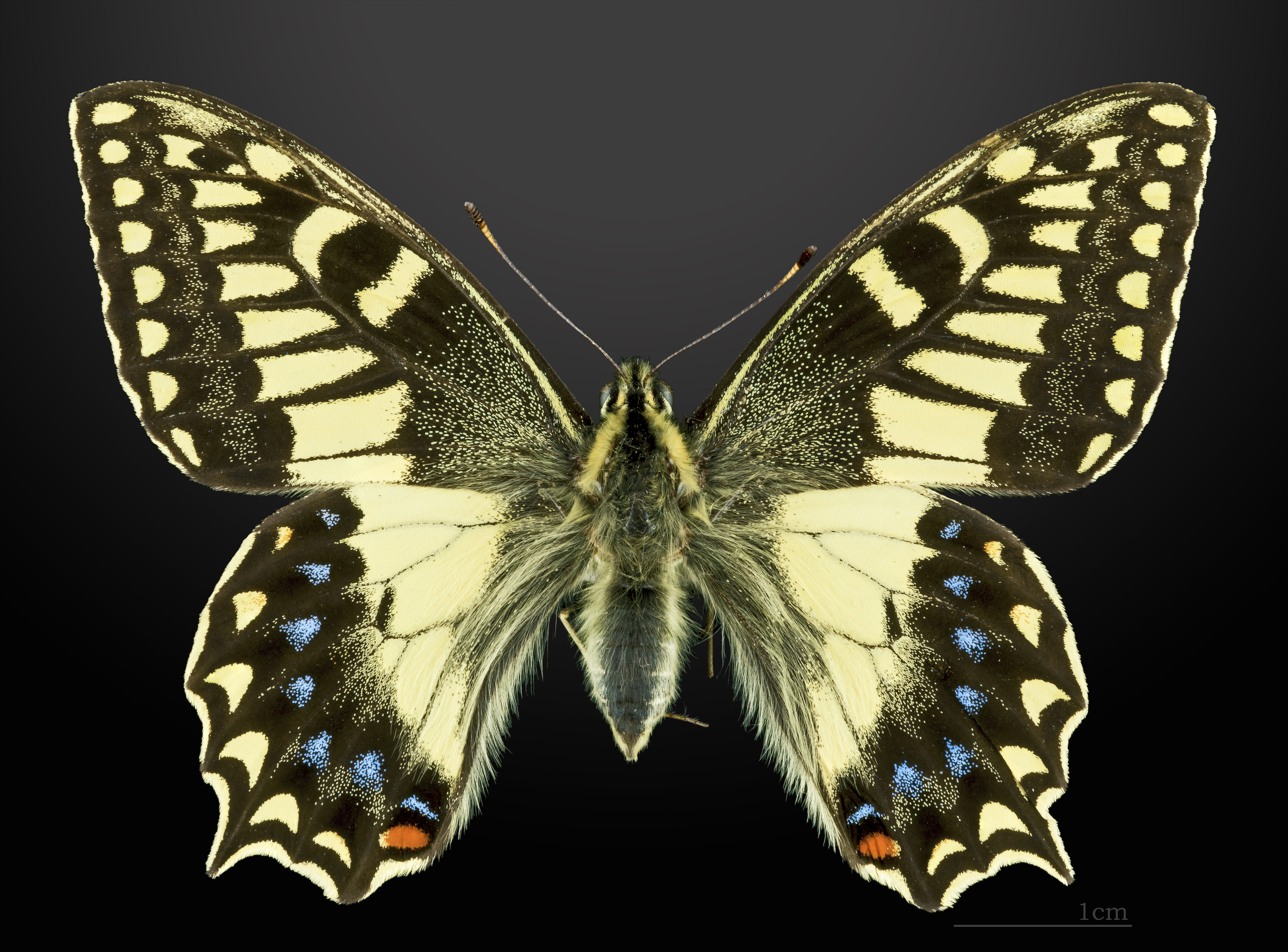 Corsican Swallowtail - Dorsal side